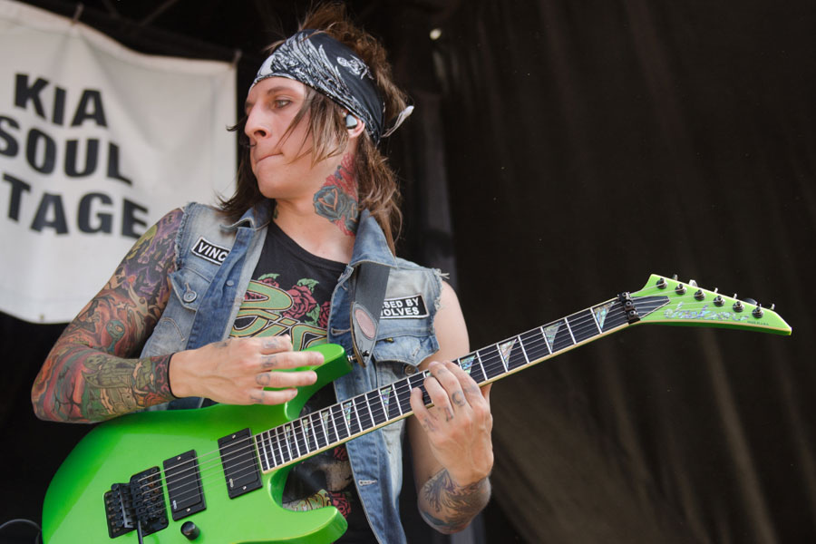 Falling in Reverse at Vans Warped Tour in Atlanta, GA on July 26, 2012. This photo is licensed under a Creative Commons license. If you use this photo within the terms of the license or make special arrangements to use the photo, please list the photo credit as "Mark Runyon / " and link the text to